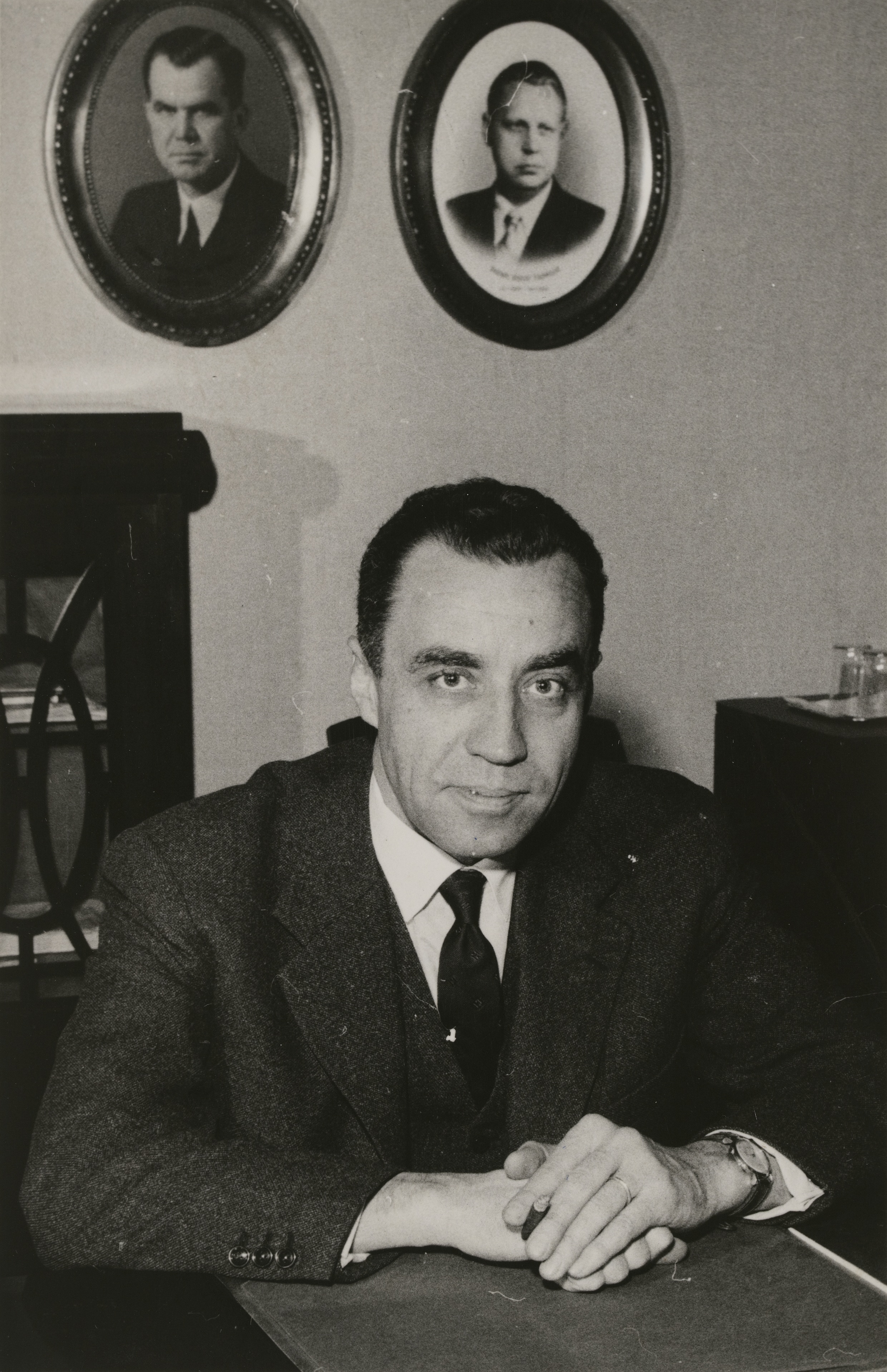 Photograph of the Finnish economist Klaus Waris (1914–1994).